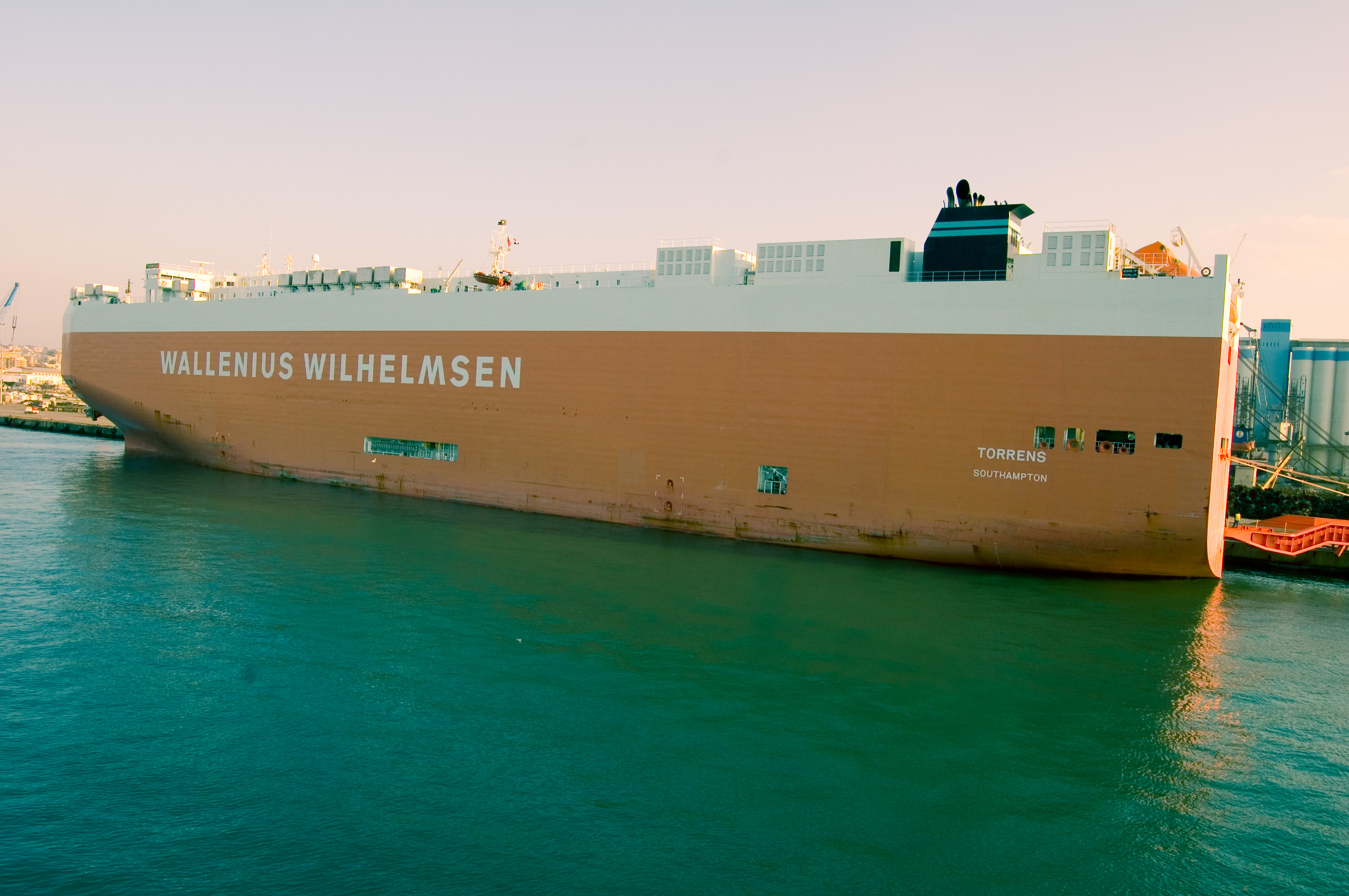 The Torrens, a huge ship for transportation of cars, in Tartus Port.